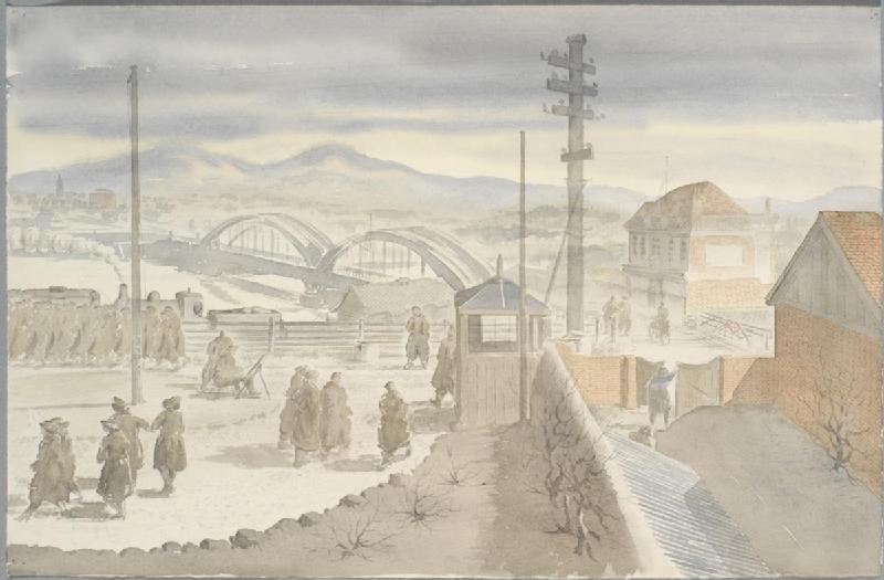 Recruits Training image: A walled courtyard with a group of recruits in overcoats marching past a similarly dressed soldier who appears to be painting at an easel. In the background is a bridge crossing a wide river. Across the river there are mountains in the distance.